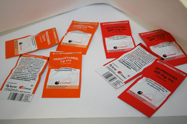 unit dose drugs packaging